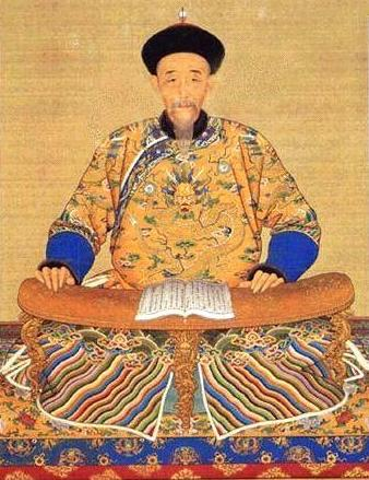 Kangxi Emperor (4 May 1654 – 20 December 1722)